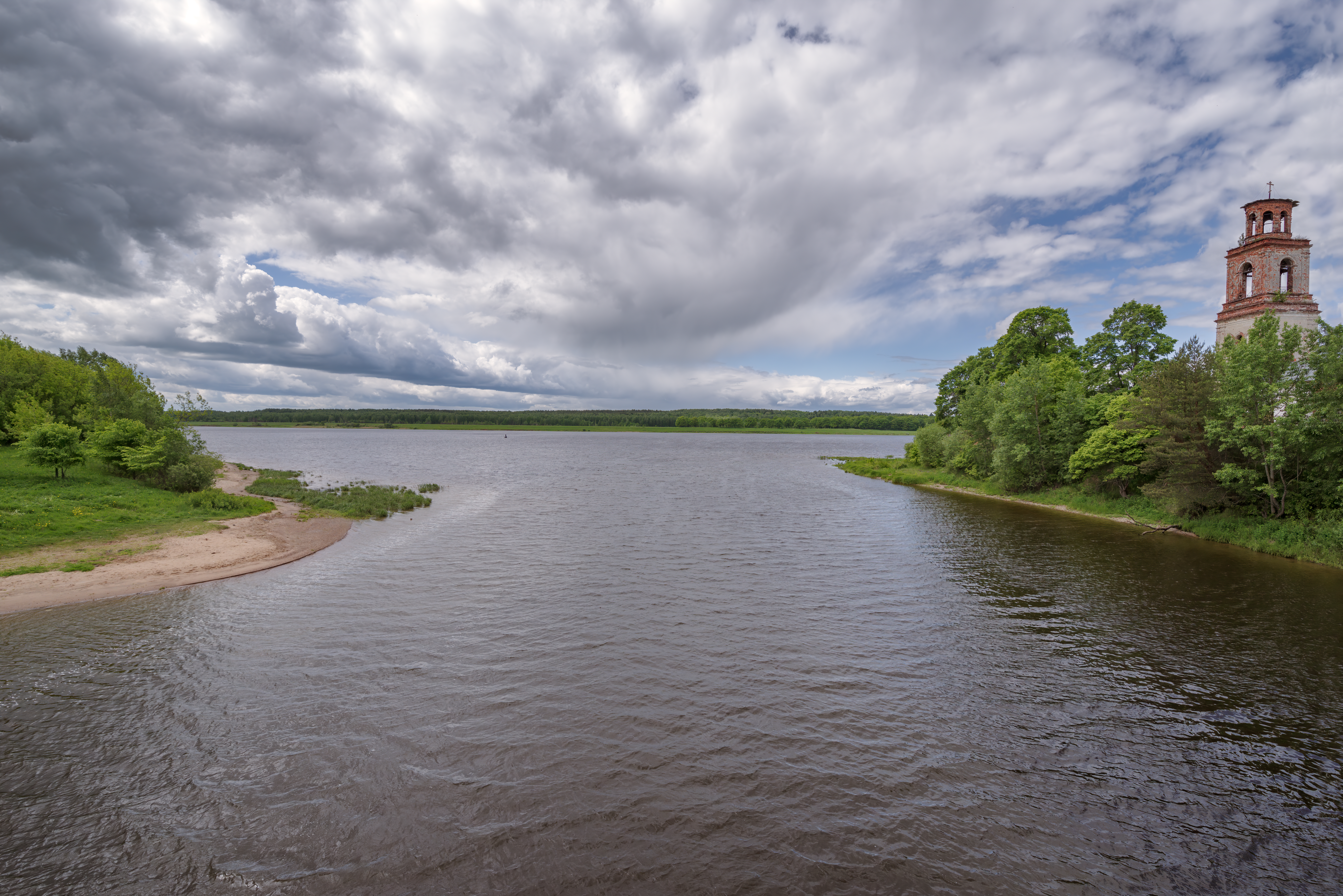 It river flows into Volga. The view is from east to west. Yaroslavl Region, Russian Federation. This image is related to the protected area of Russia number 7610487